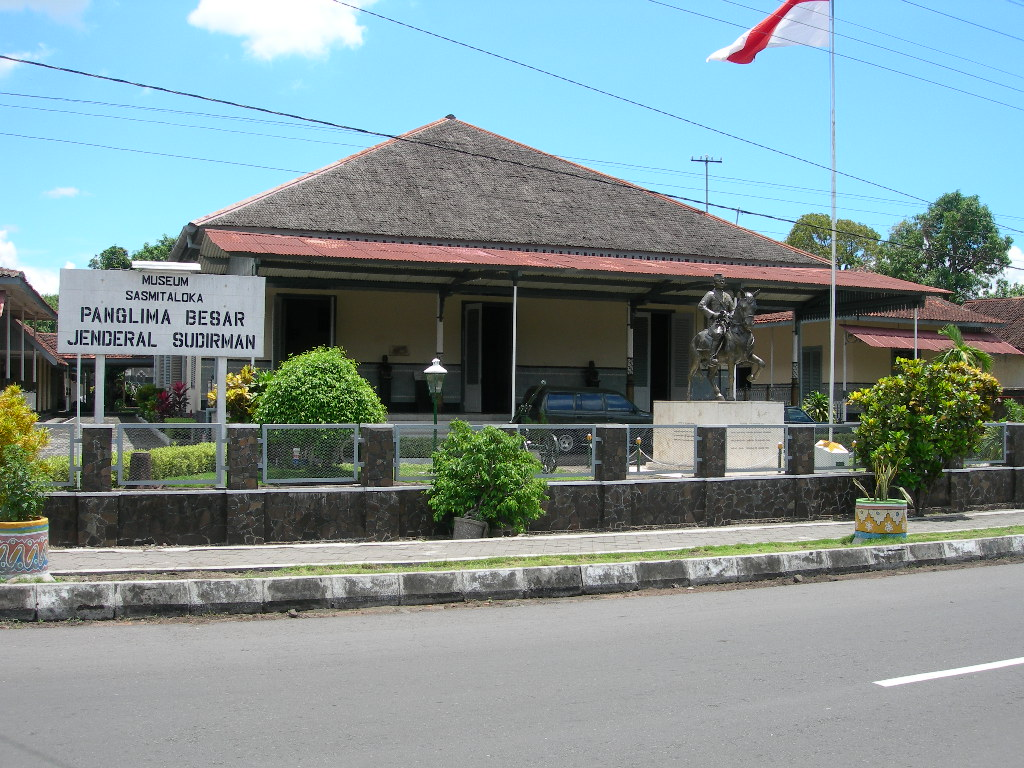 Sasmitaloka Museum of The Great Commander General Sudirman, Yogyakarta, Indonesia.